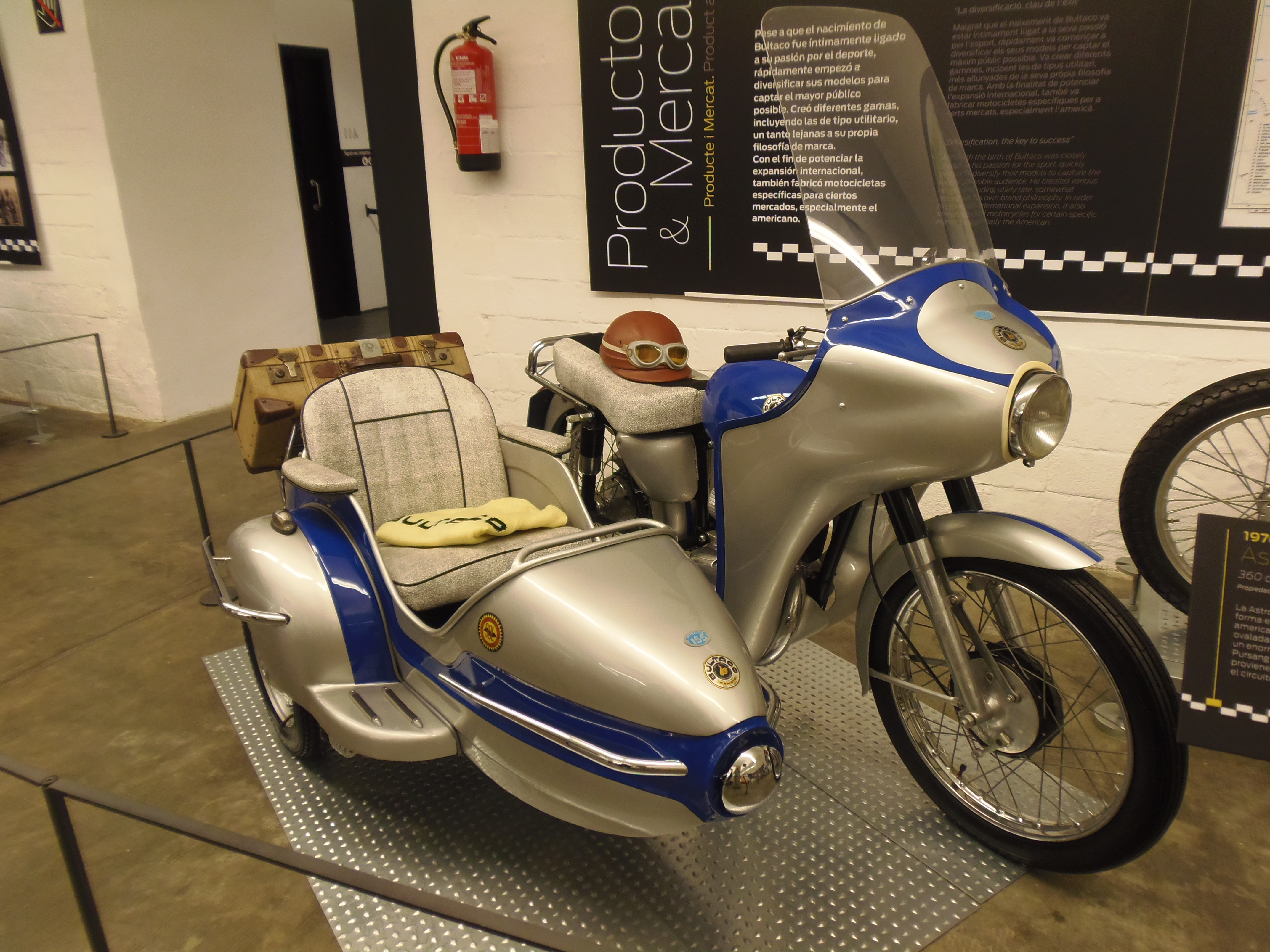 Bultaco 155 with a sidecar, 155 cc, 1961